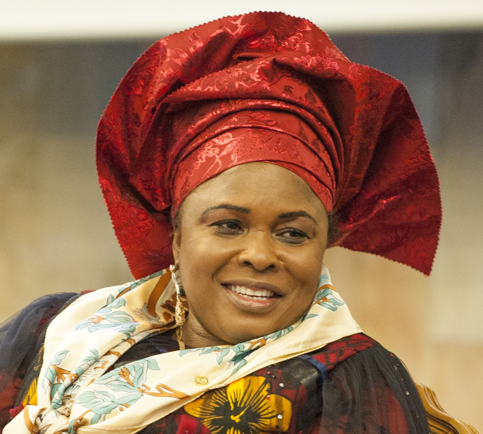 Geneva, 10 May, 2013Dame (Dr) Patience Goodluck Jonathan, First Lady of Nigeria and President of the African First Ladies Peace Mission and Dr. Hamadoun I. Touré, Secretary – General, ITUThe Secretary-General of International Telecommunication Union (ITU) Dr Hamadoun I. Touré today appointed the First Lady of Nigeria and President of the African First Ladies Peace Mission, Her Excellency Dame (Dr) Patience Goodluck Jonathan, as ITU’s Child Online Protection (COP) Champion.ITU/Rowan Farrell